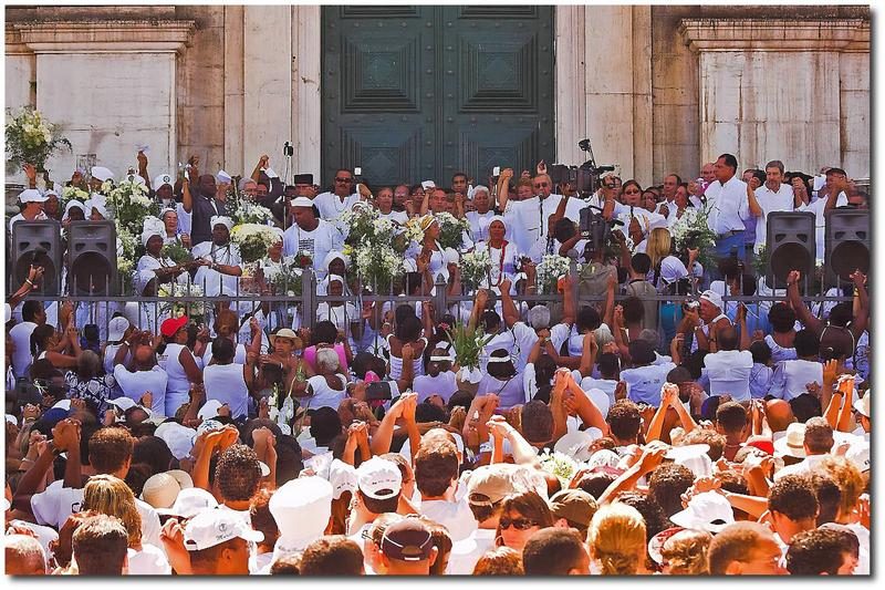 Mass during Bonfim festivities, Salvador, Brazil